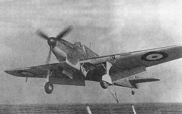 Fairey Fulmar Mk. I carrier-borne fighter and recce landing on aircraft carrier in the Mediterranean (1941)